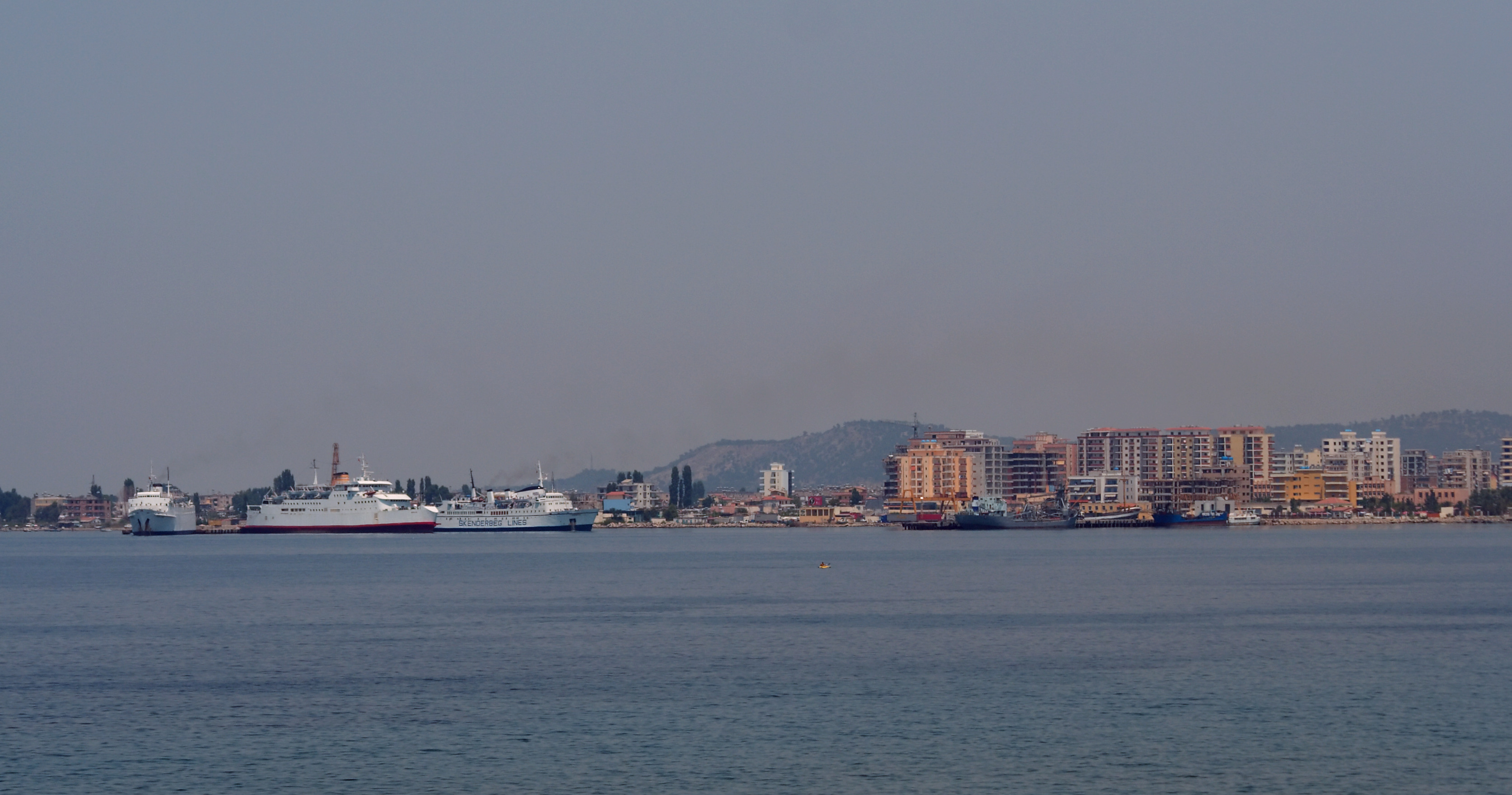 The port of Vlora, Albania